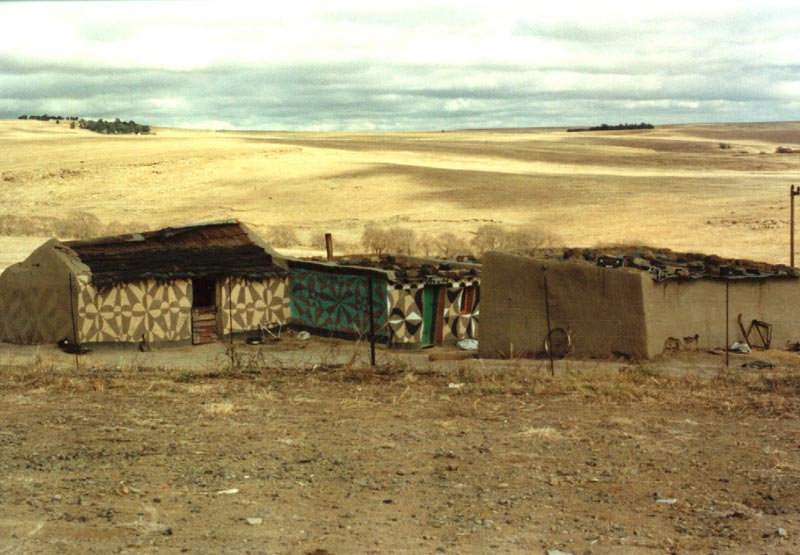 Taken and donated by user:Guinnog